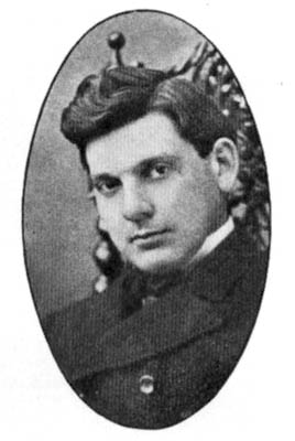 Irving Gill California Modernist architect — based in San Diego.